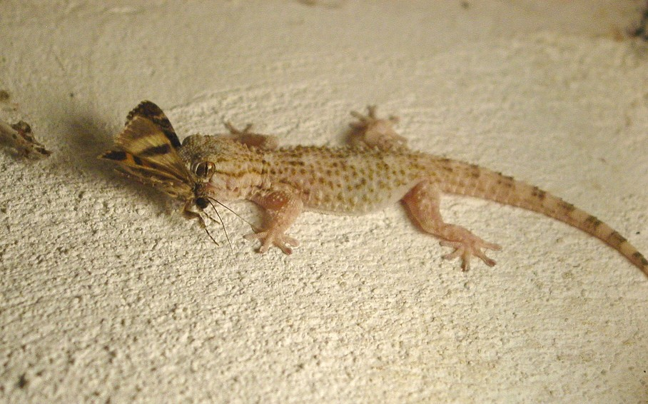 Moorish gecko catching a moth. Shot in Greece. Required attribution: Photo by Channel R